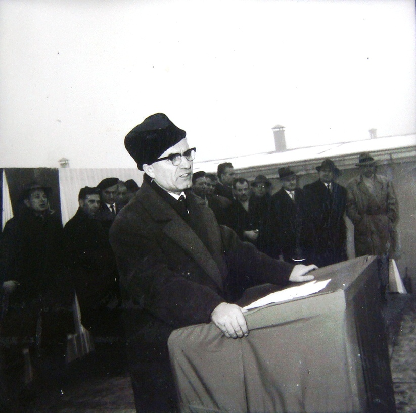 1963 Skopje earthquake: Formal handover to use the new settlement Dracevo, with 706 apartments built by builders from SR Serbia. Ljupco Arsov gave the speech, Chairman of the Executive Board of the Main Board of SSRNM (27 December 1963) This media file is produced by Wikipedian in Residence in Category:Wikipedian in Residence at DARM in 2016.